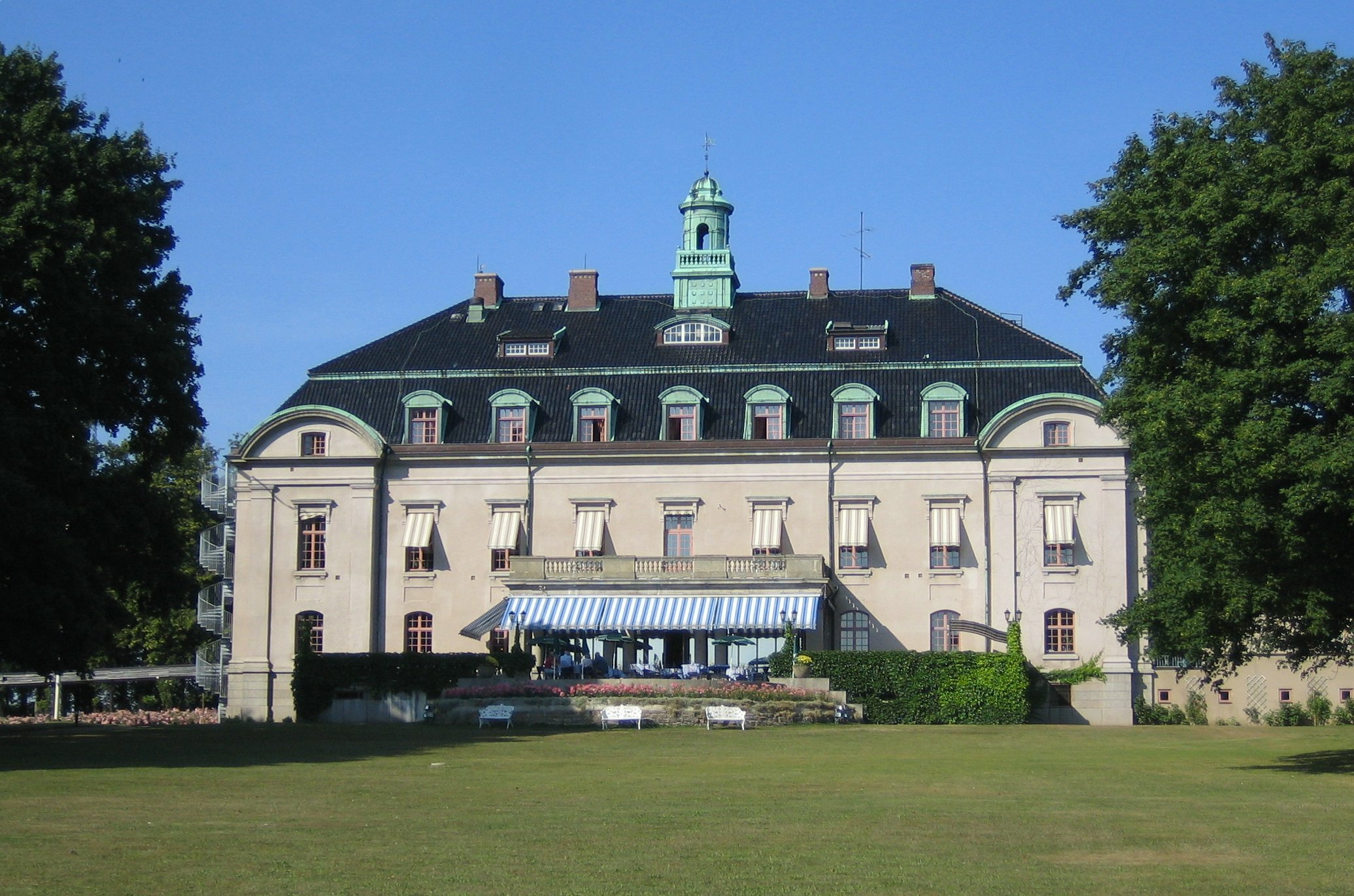 Picture of Örenäs castle in Scania, Sweden.